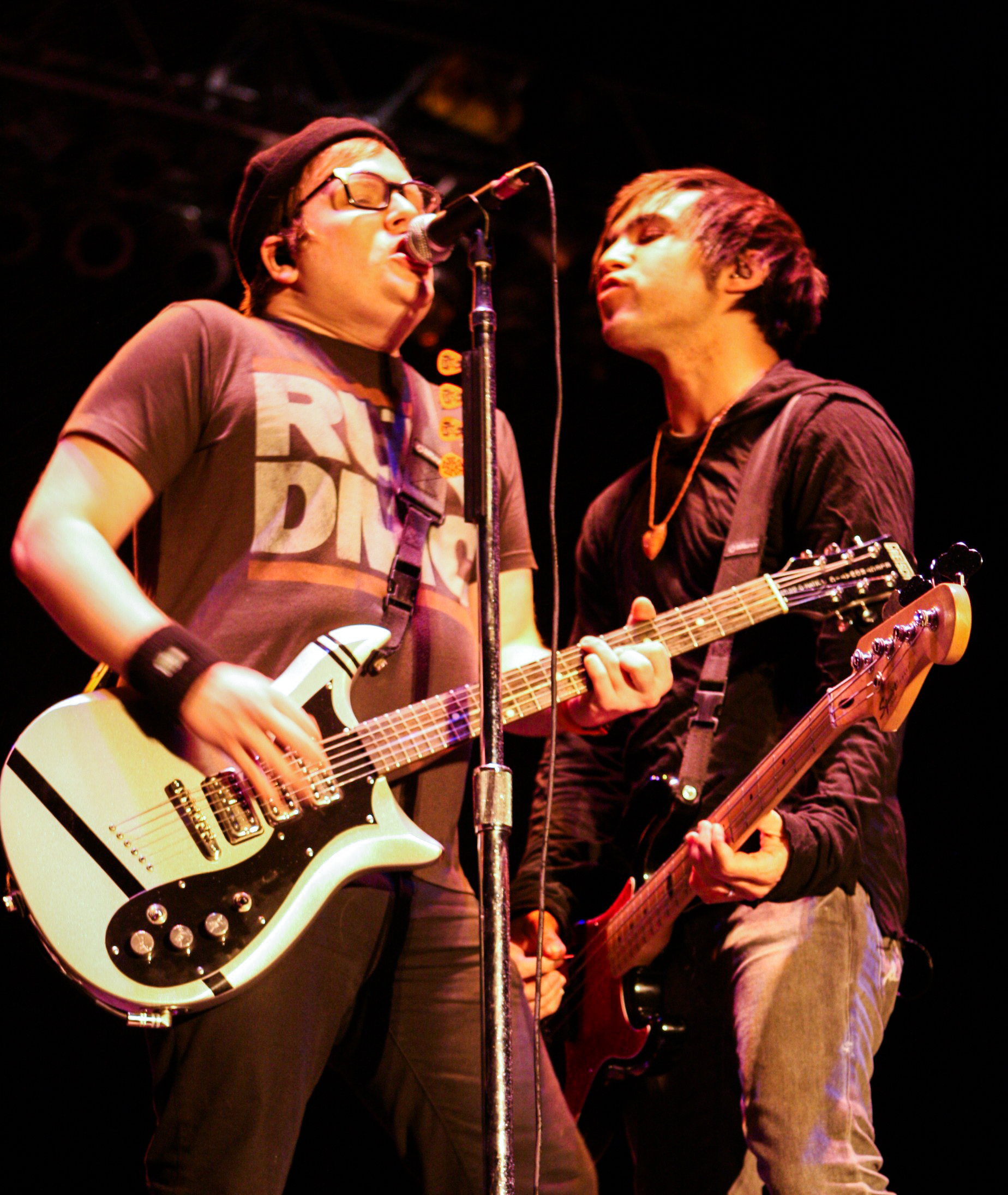 Fall Out Boy's Pete Wentz and Patrick Stump performing on May 3, 2009 in Nashville, Tennessee.